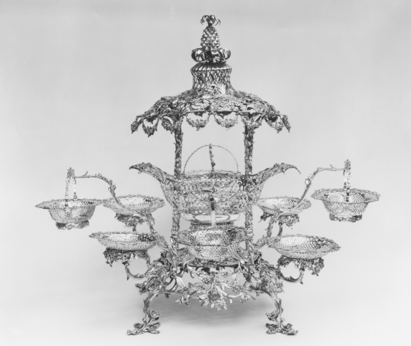 British, London; Epergne; Metalwork-Silver